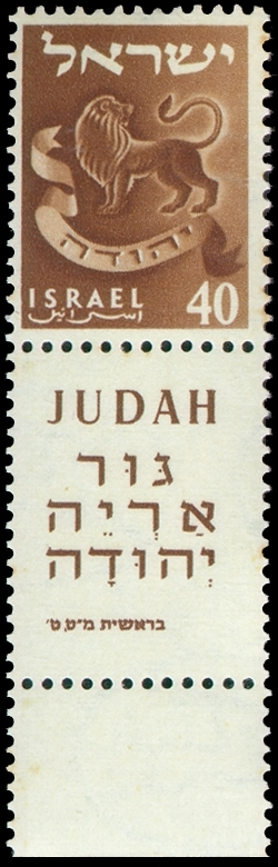 Tribes stamp - 40 mil - Judah. Second definitive series. Inscription on tab: "Judah is a lion's whelp..." Genesis IL, 9.